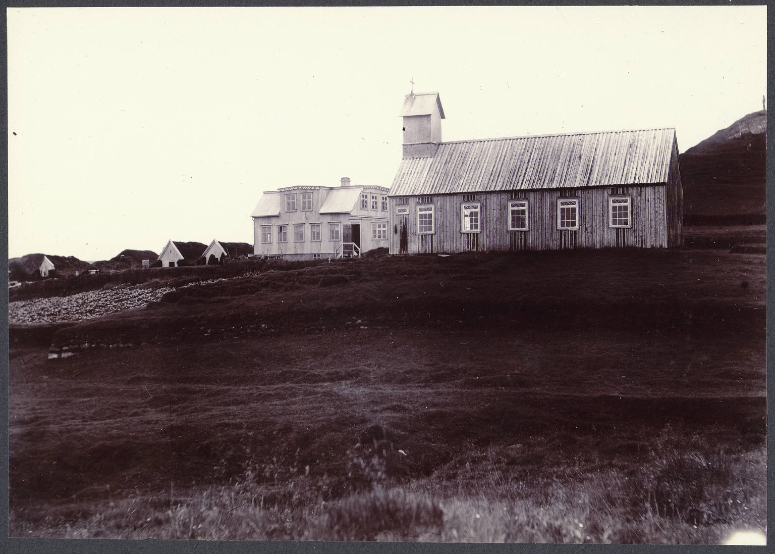 Collection: Icelandic and Faroese Photographs of Frederick W.W. Howell, Cornell University Library Title: Hruni. Church and parsonage. Date: ca. 1900 Place: Hruni (Iceland : Farmstead) Medium: collodion print Repository: Fiske Icelandic Collection, Rare & Manuscript Collections, Cornell University Library Accession: 1923.2.46 URL: Persistent URI: There are no known U.S. copyright restrictions on this image. The digital file is owned by the Cornell Univeristy Library which is making it freely available with the request that, when possible, the Library be credited as its source. We had some help with the geocoding from Web Services by Yahoo!